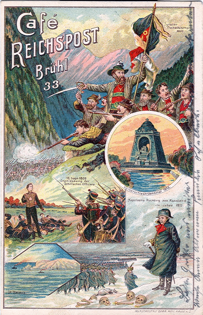 Postcard, dated 5.2.1917. Title: " Cafe Reichspost ( Imperial Post ) Brühl 33 - Tyrolian freedom fight 1809 - Monument of Völkerschlacht 1813 - 16th Sept. 1809 Execution of Schill´s officers - Napoleon´s retreat from Russia 1812 - Island of Saint Helena"